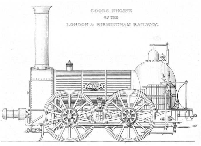 Edward Bury and Company bar framed 0-4-0 goods locomotive for the London and Birmingham Railway.